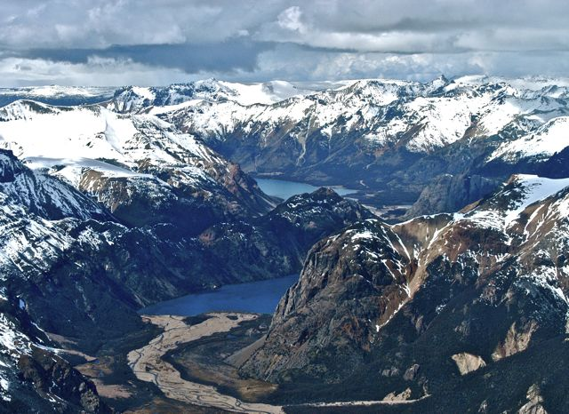 mountains